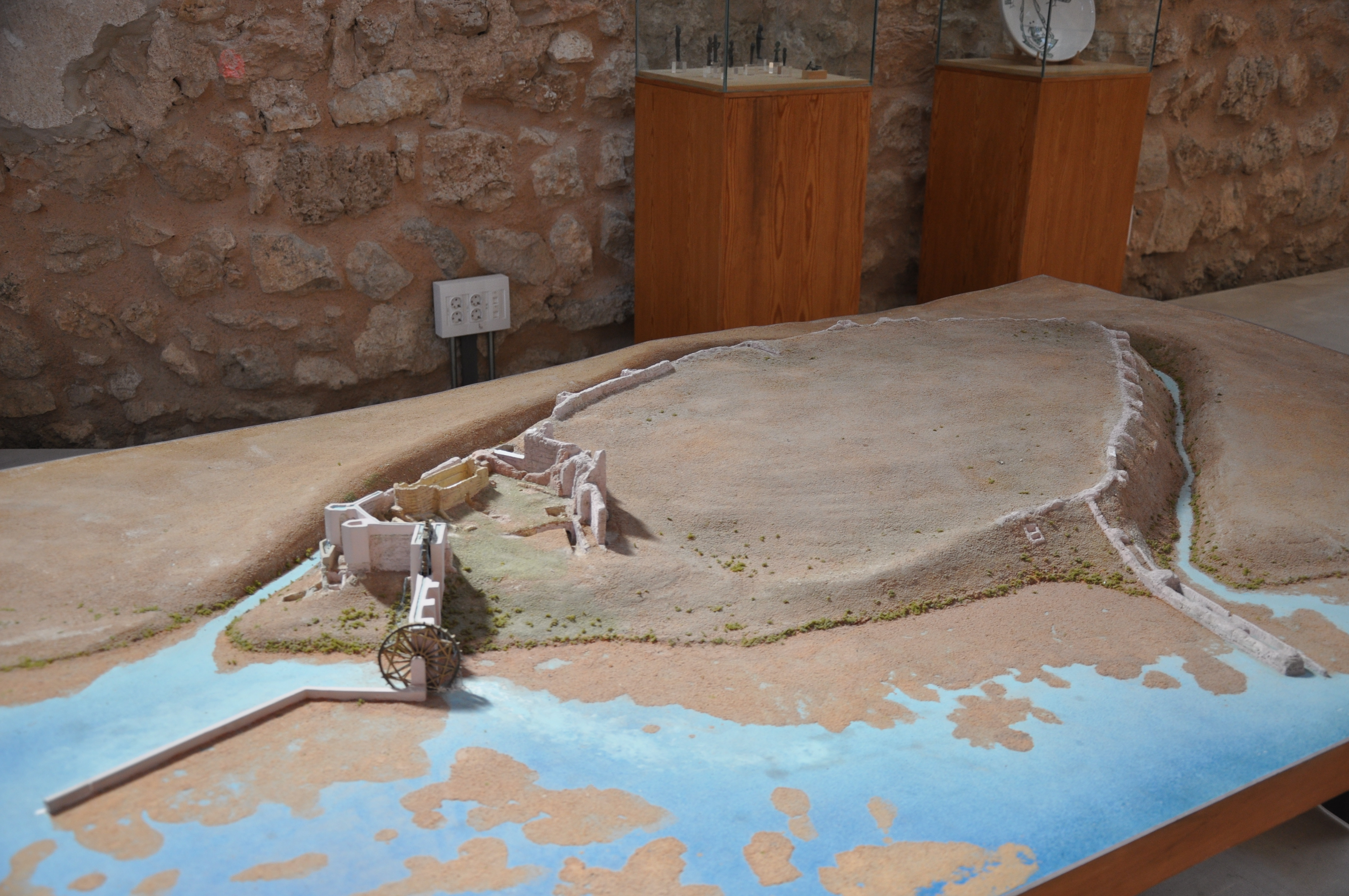 Model of the medina and fortress of Calatrava la Vieja, Carrión de Calatrava, CR, Castilla-La Mancha, Spain